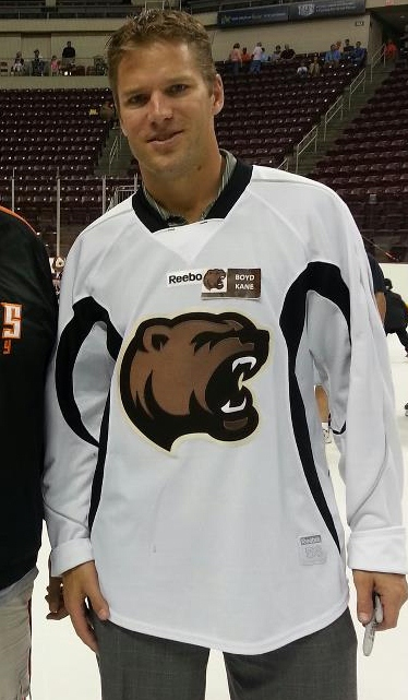 New pic of Boyd